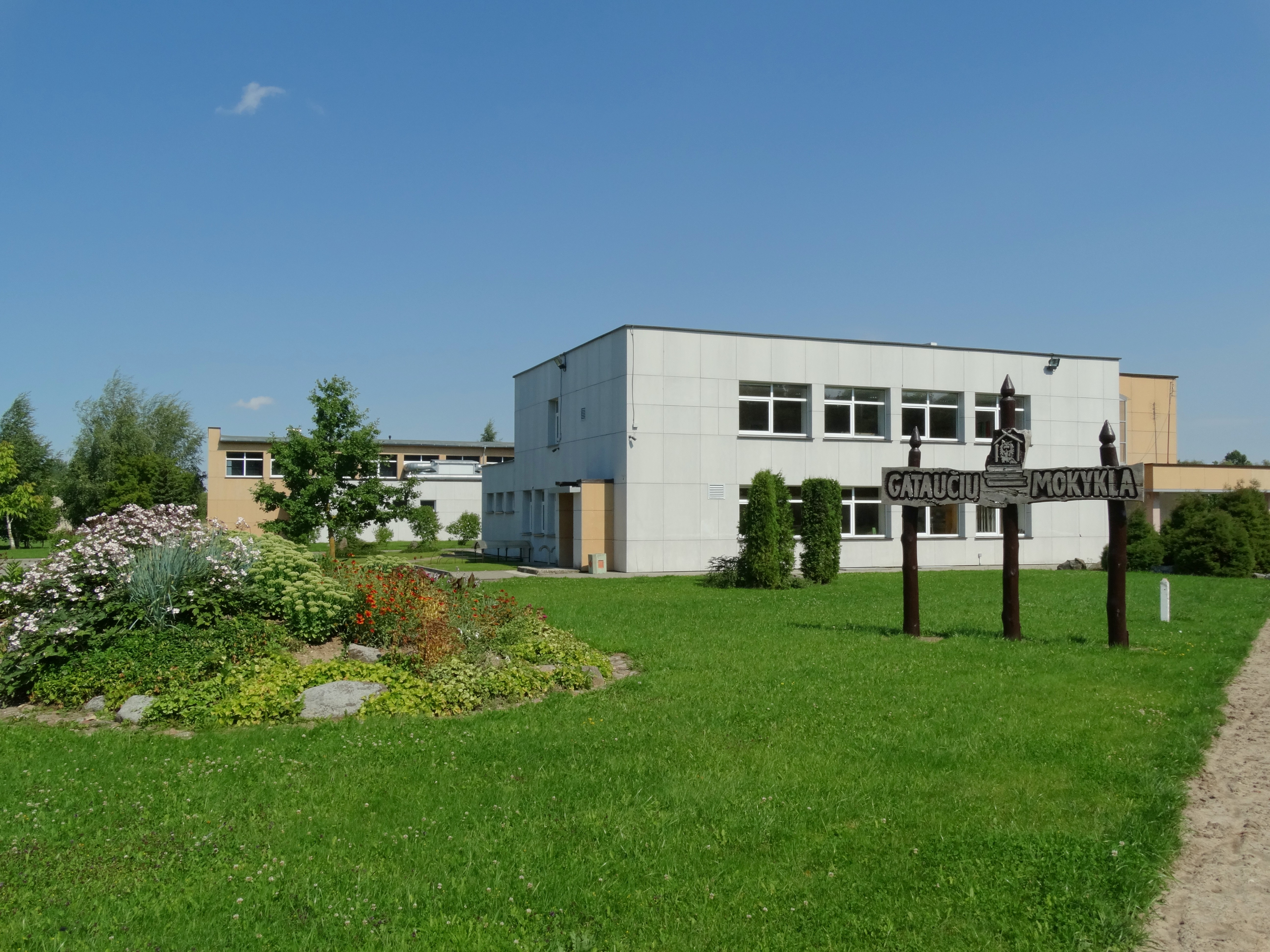 Gataučiai, school, Joniškis District, Lithuania